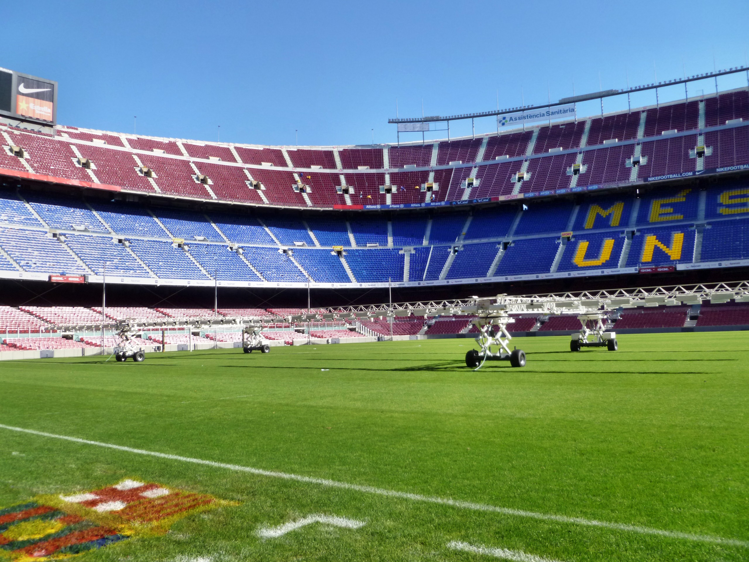 View on the grass field with machines for illuminating the grass in the dark to make it grow faster, Camp Nou, Stadium of F.C. Barcelona, Barcelona, Catalonia, Spain